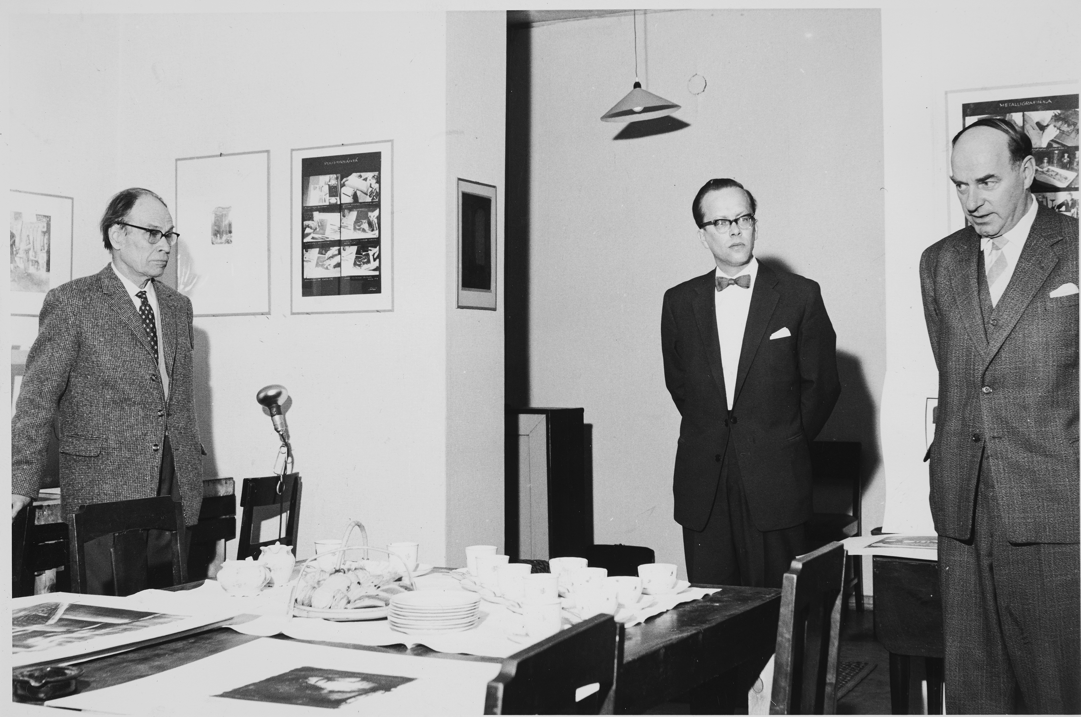 Photograph of Aukusti Tuhka, Erkki Salonen and L. A. Puntila at Tuhka’s workroom.